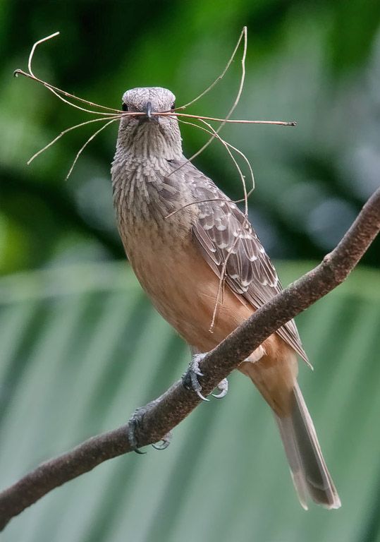 Chlamydera cerviniventris - Fawn Breasted Bowerbird